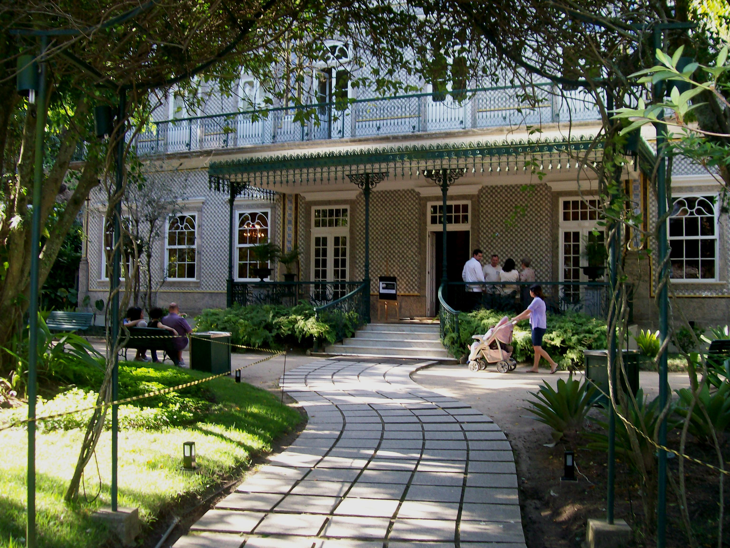 Jambeiro Manor, São Domingos, Niterói, Rio de Janeiro, Brazil.